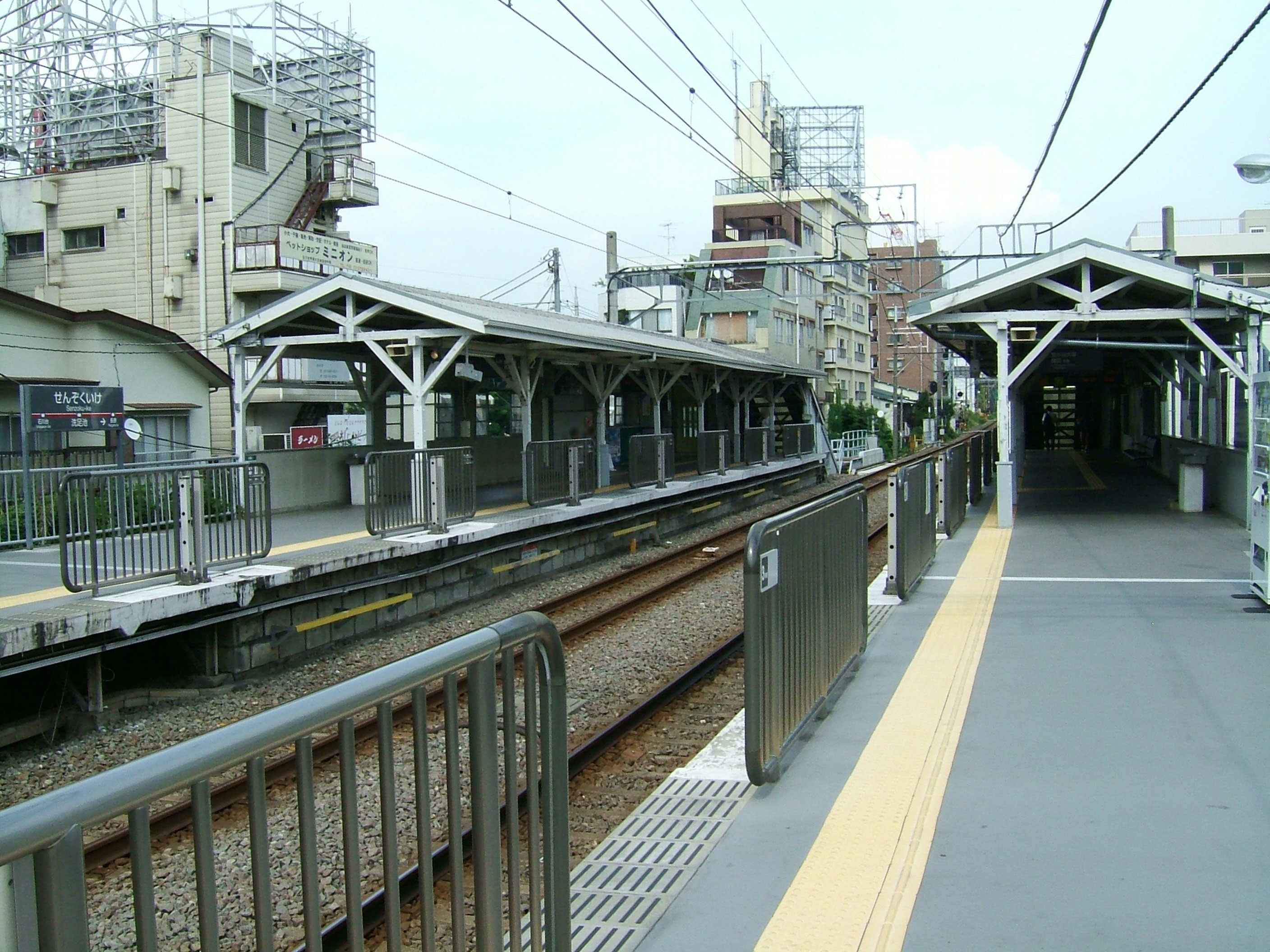 Senzoku-Ike Station platform (Tōkyū Ikegami Line)